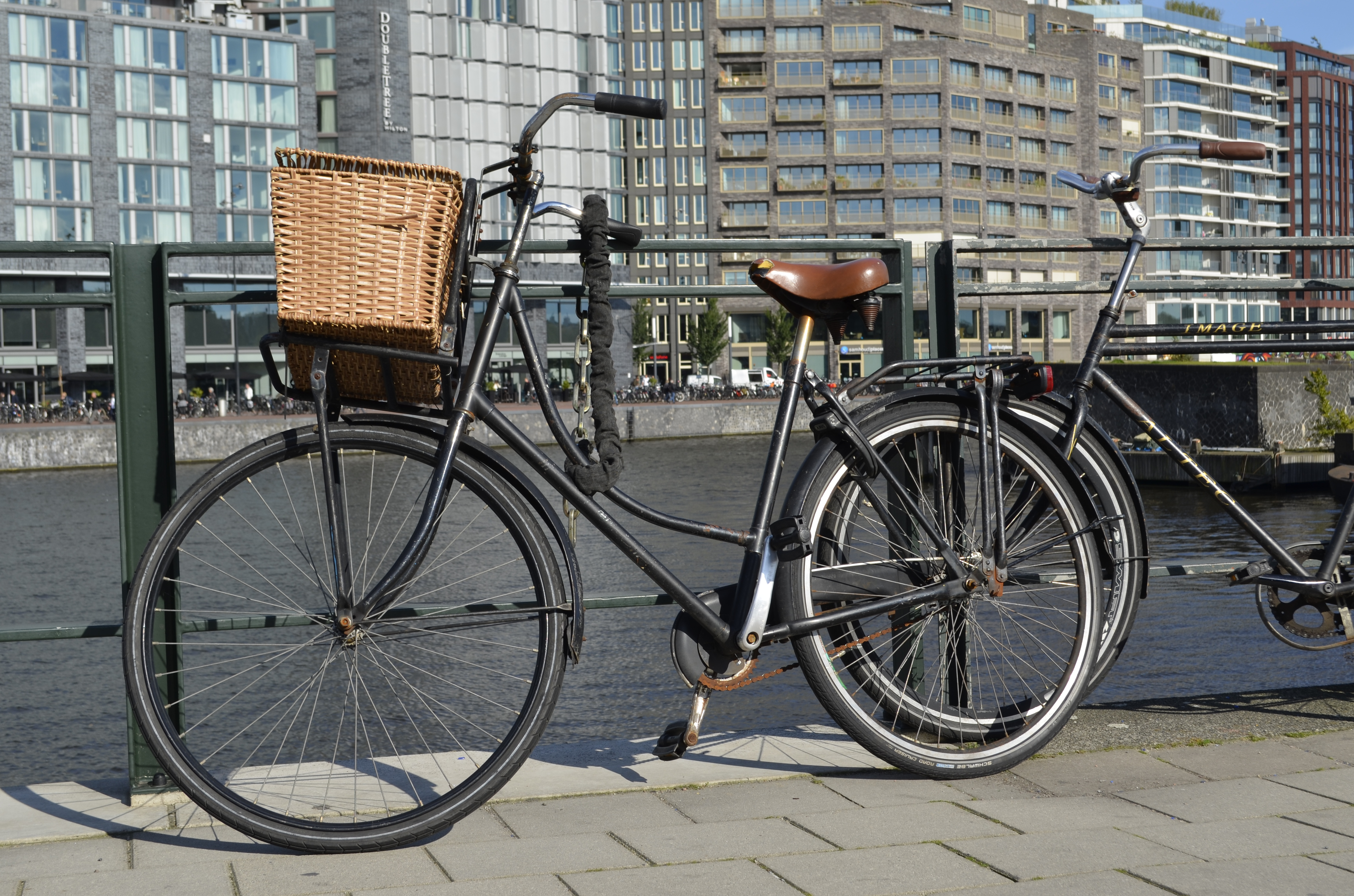 A Bike near to the Centraal railway station of Amsterdam